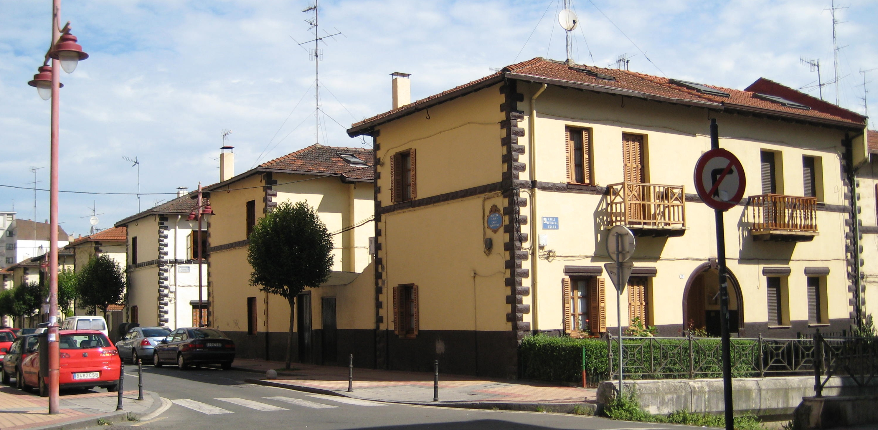 Houses designed by Ismael Gorostiza and built in 1925 by Sociedad de Casas Baratas "La Tribu Moderna", in Bagatza, Barakaldo, Biscay.